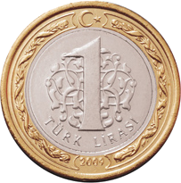 1 Lira coin obverse